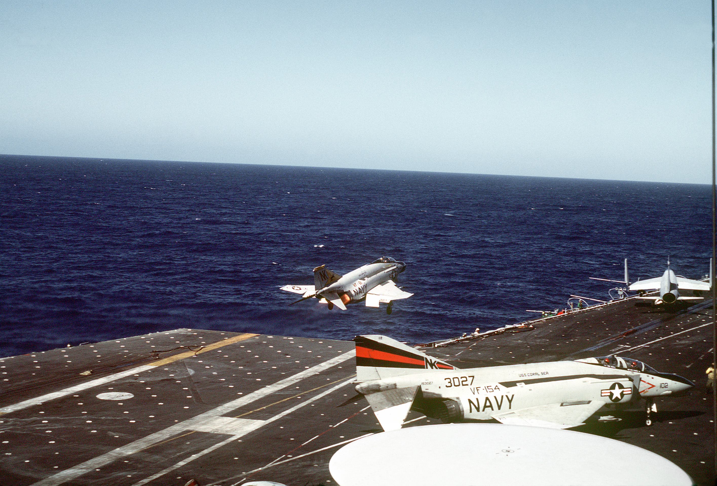 A right rear view of an McDonnellDouglas F-4N Phantom II aircraft from fighter squadron VF-21 Free Lancers being launched from the aircraft carrier USS Coral Sea (CV-43) on 1 May 1981 (note the launching cable). Waiting to be launched is another F-4N (BuNo 153027) of VF-154 Black Knights. The radome of a Grumman E-2B Hawkeye of airborne early warning squadron VAW-113 Black Eagles is visible in the foreground, whereas a Vought A-7E Corsair II attack aircraft of either VA-27 Royal Maces or VA-97 Warhawks is parked in the background. All planes were part of Carrier Air Wing Fourteen (CVW-14).